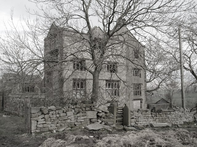 Extwistle Hall The main body of Extwistle Hall dates from 1580, the rear wing from 1637 and was the home of the Parker family. Local legend tells the story of Captain Robert Parker who, after a meeting with the Jacobites in the early 18th Century witnessed a goblin funeral passing near to Extwistle Hall. He hid in some bushes but was horrified to see the goblin procession bearing a coffin inscribed with his own name. He took this as a warning against siding with the Jacobites and withdrew his support, refusing to take any part in the failed uprising of 1715. Extwistle hall is currently abandoned.